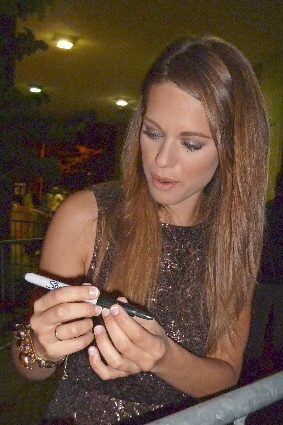 Lyndsey Fonseca at the premiere of John Carpenter's The Ward, Toronto Film Festival 2010. Oh no, another person who doesn't know the retractable sharpies.